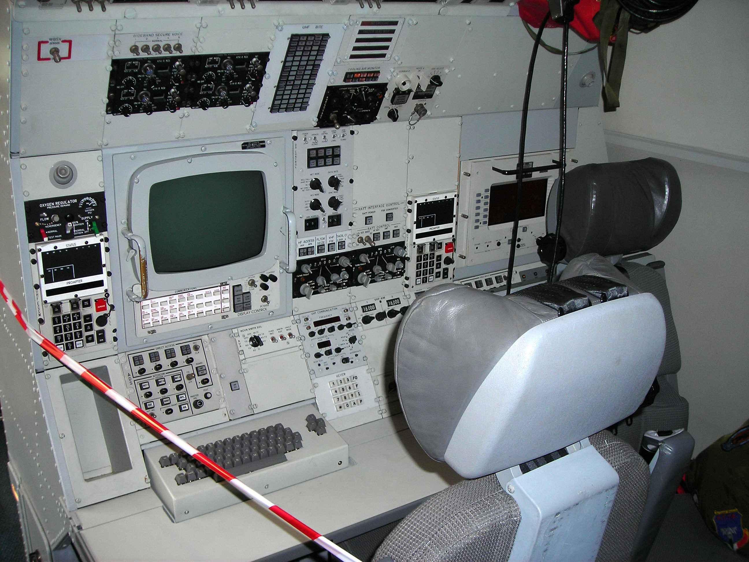 A console on a E-3 Sentry AWACS aircraft. Picture taken during "Giornata Azzurra" 2006 (Italian Air Force airshow) at Pratica di Mare AFB, Italy.